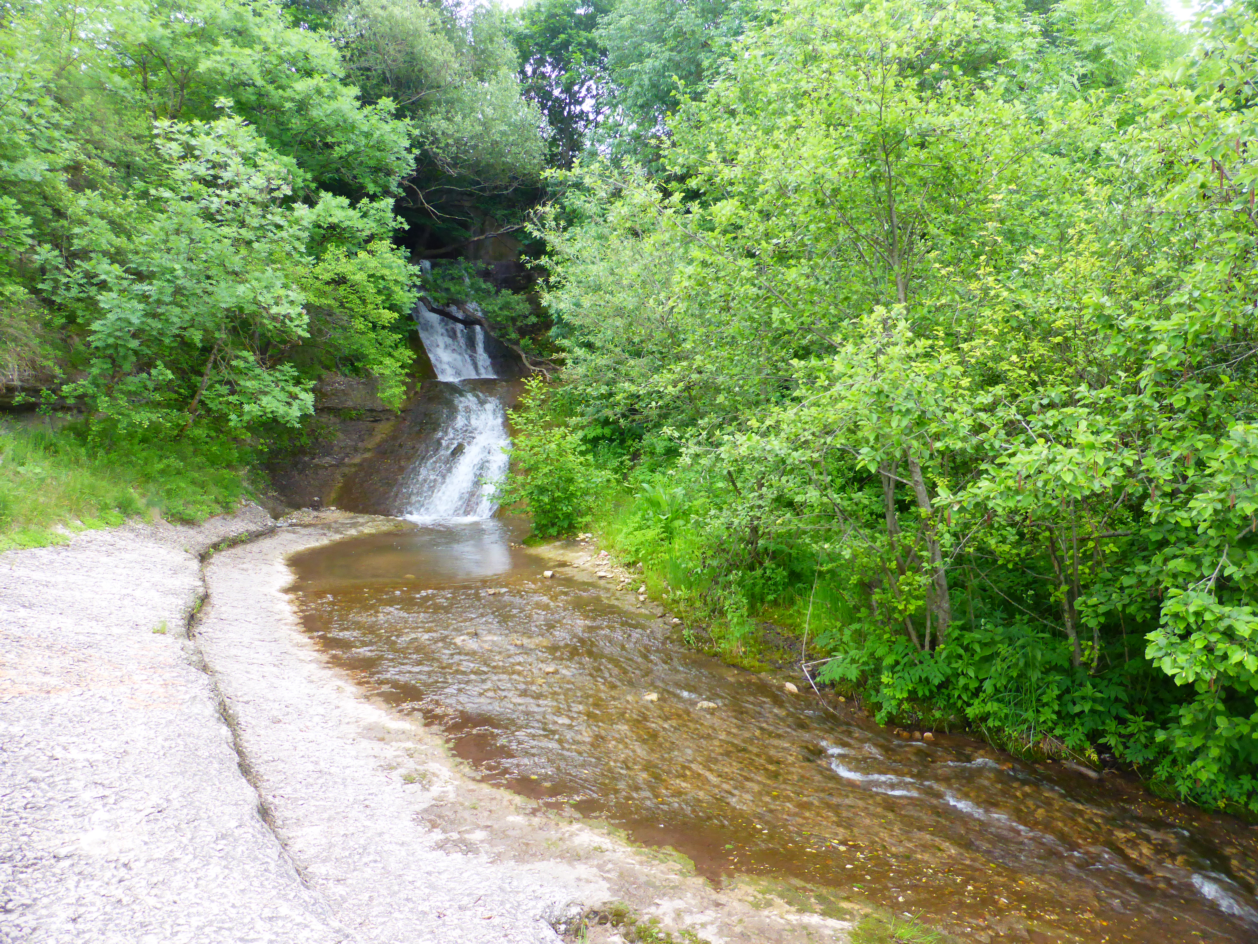 Canyon Kurlyuk